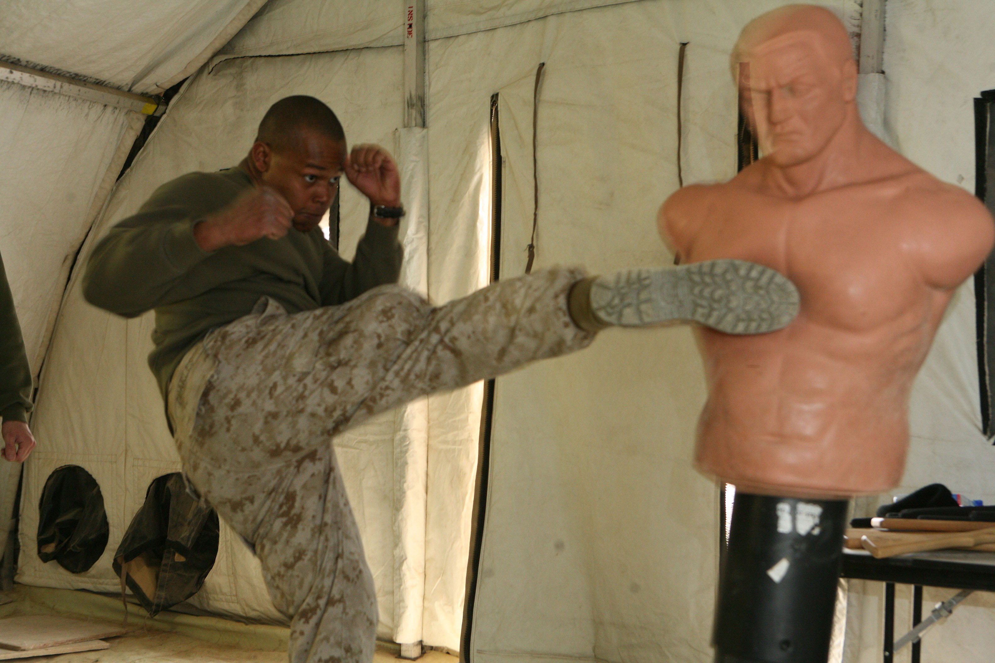 FORWARD OPERATING BASE CAFERETTA, NIMRUZ PROVINCE, Afghanistan – Lance Cpl. Josue Charles, a warehouse clerk with Headquarters Company, 3rd Battalion, 4th Marine Regiment, practices a kicking techniques during a gray-belt course, part of the Marine Corps Martial Arts Program, here Jan. 14. Charles is a 20-year-old from Big Lake, Minn. (Official Marine Corps photo by Cpl. Zachary J. Nola)